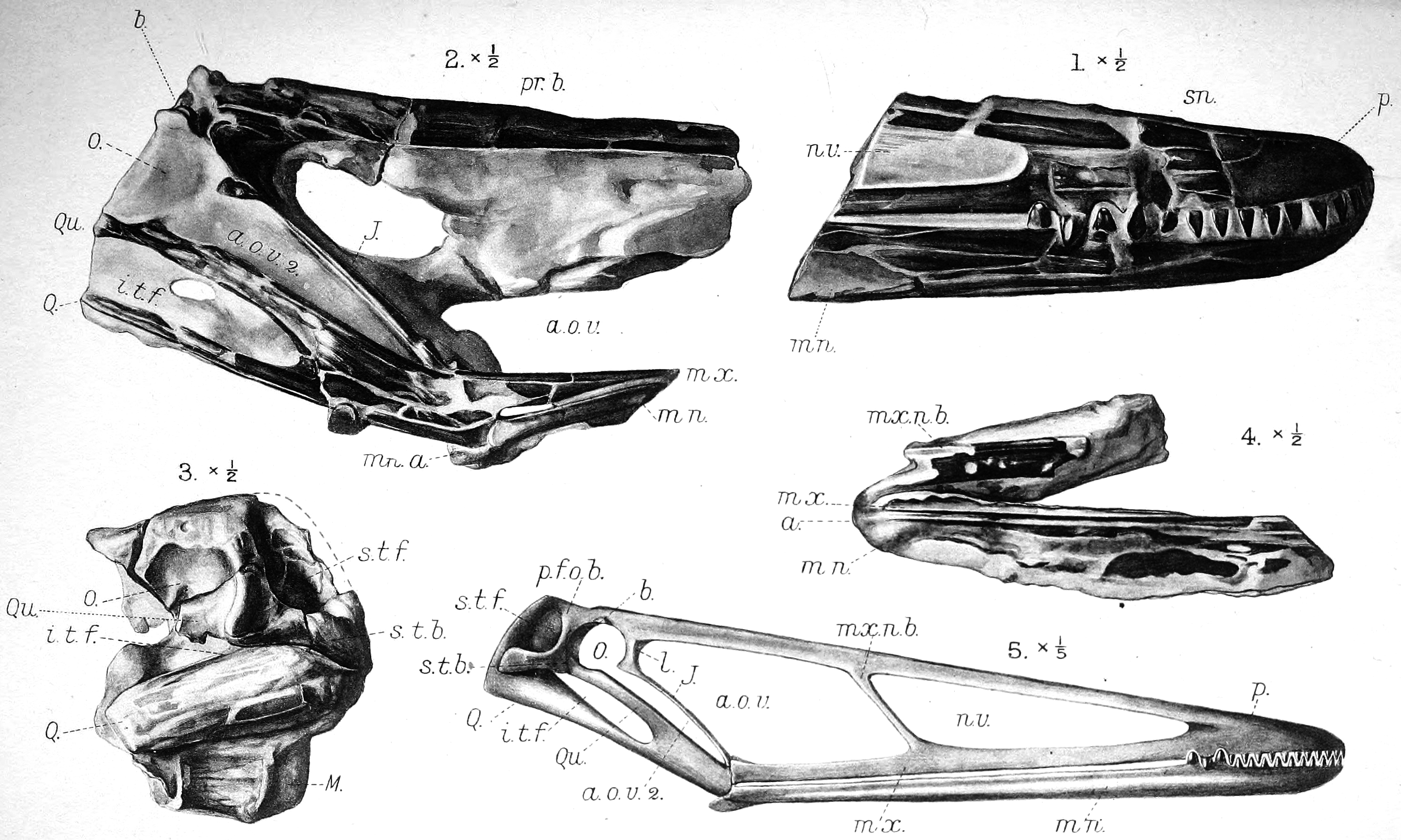 Title: The Quarterly journal of the Geological Society of London Year: 1845 (1840s) Authors: Geological Society of London Subjects: Geology Publisher: London (etc.) Text Appearing Before Image: Quart. Journ. Geol. Soc. Vol. LXIX, Pl. XXXVII. Text Appearing After Image: Quart. Journ. Geol. Soc. Vol. LXIX, Pl.XXXVIII.